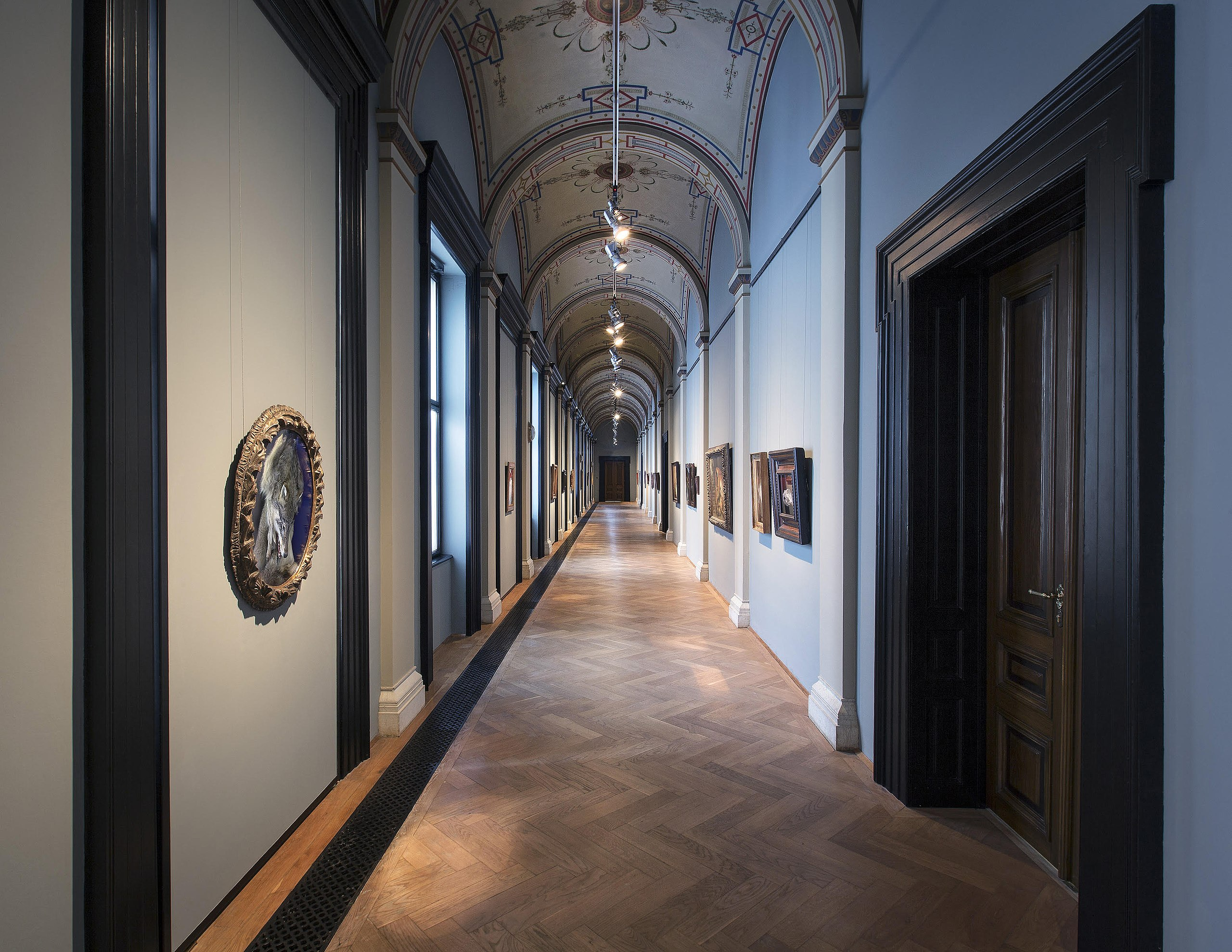 Installation view from Oliver Marks exhibition Natura Morta in the Paintings Gallery of the Academy of Fine Arts Vienna